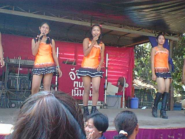 Dancers at a wedding in Ban Dongphayom, Thailand, taken by Kevin Borland, January 3, 2001. Dancers at a wedding in Ban Dongphayom, Thailand, taken by Kevin Borland, January 3, 2001.